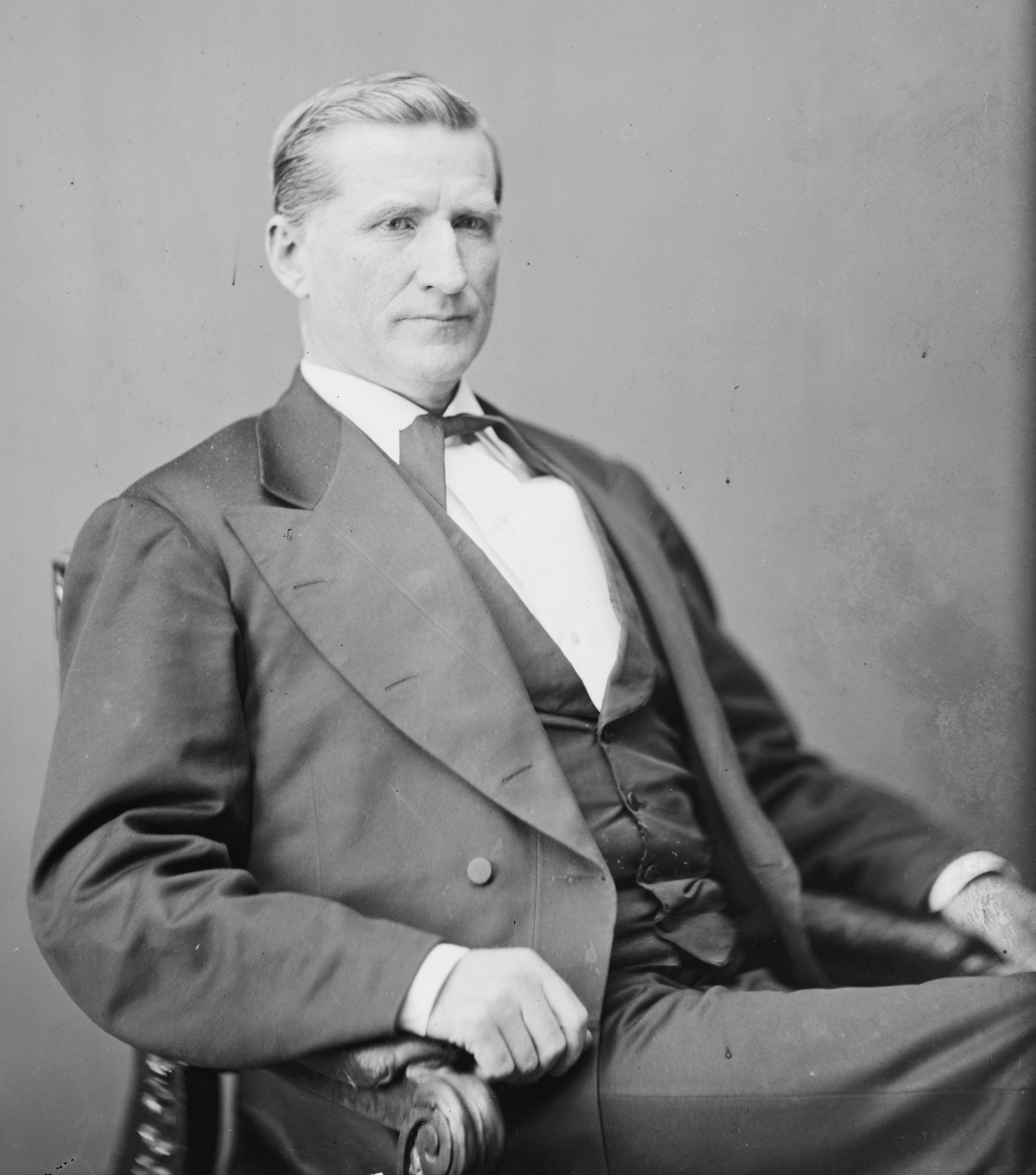 John Goode. Library of Congress description: "Goode, Hon. John, Rep. Of VA. Vol. In Confederate Army, Member of Confederate Congress"